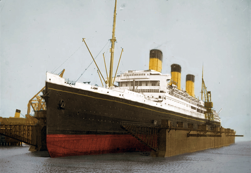 Ship Majestic in a floating dock in Southampton 1932. The ship was delievered by Germany to Britain as part of WWI war reparations. The ship was originally named "Bismarck".